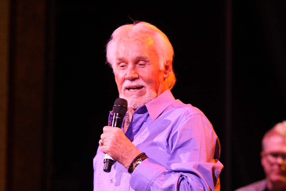 Country music legend Kenny Rogers performs State Theatre, Sydney; Australian music legend John Williamson supports.